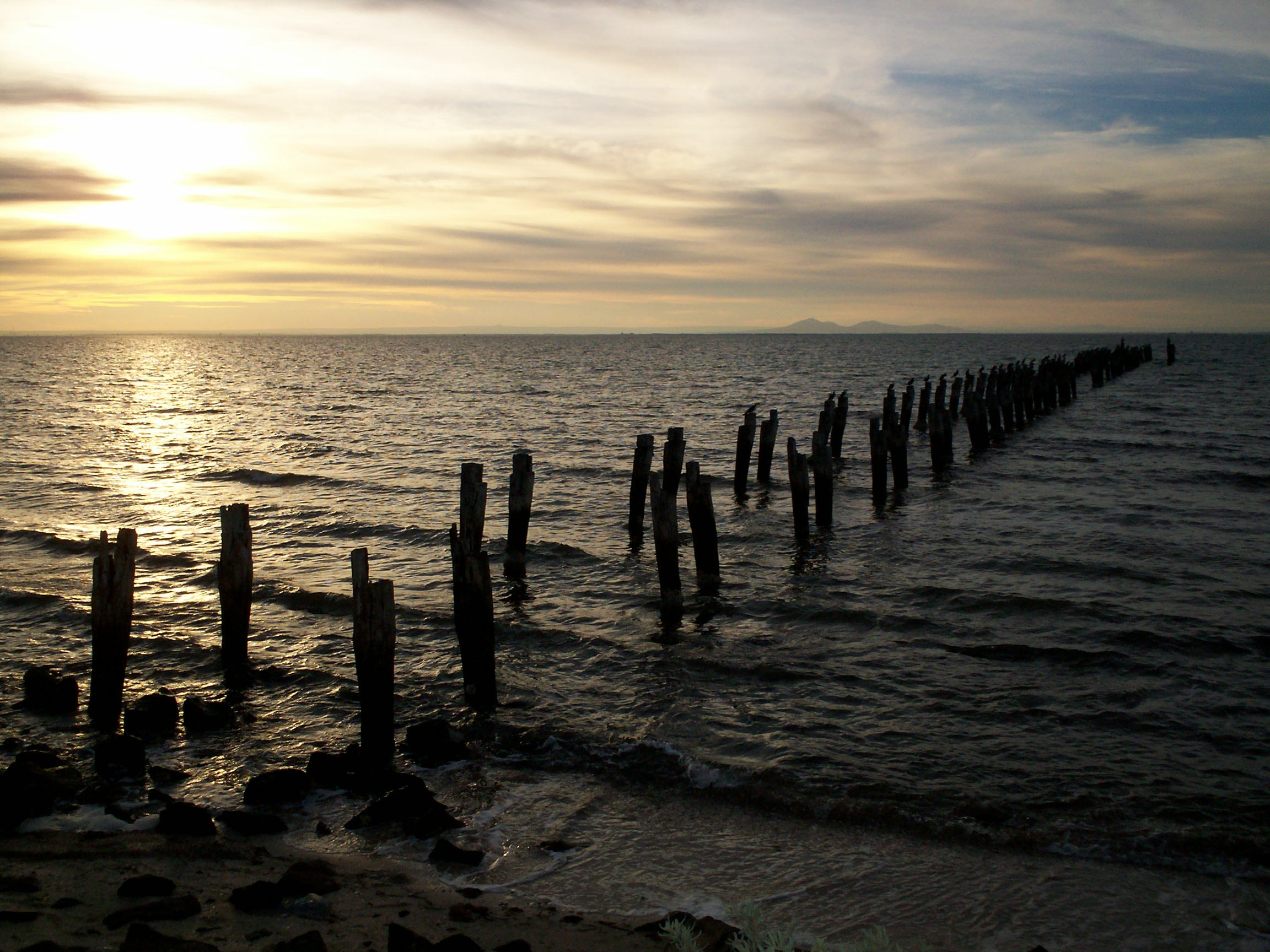 Taken by User:Michaelbeckham - 24/6/07